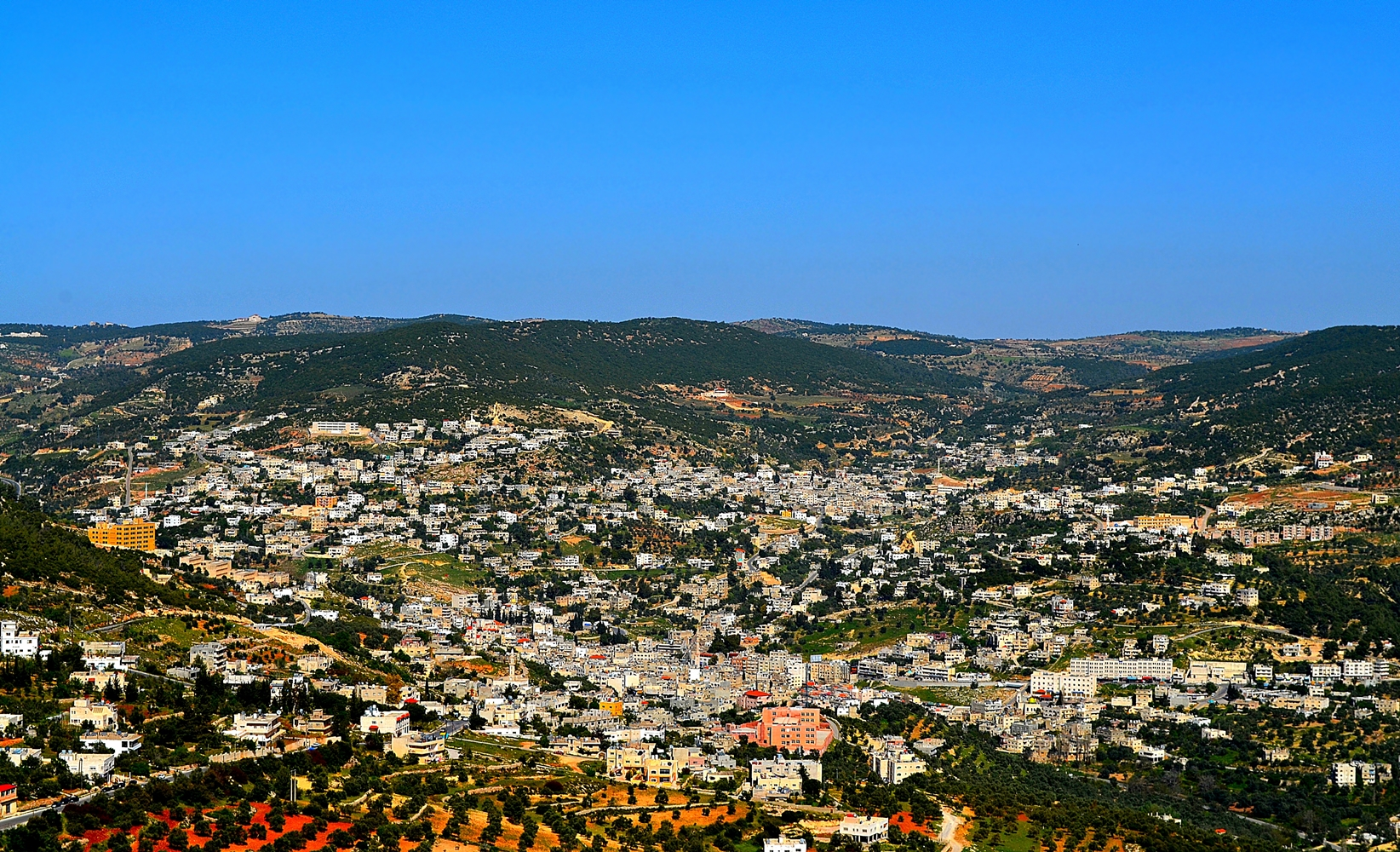 Ajloun, Jordan.